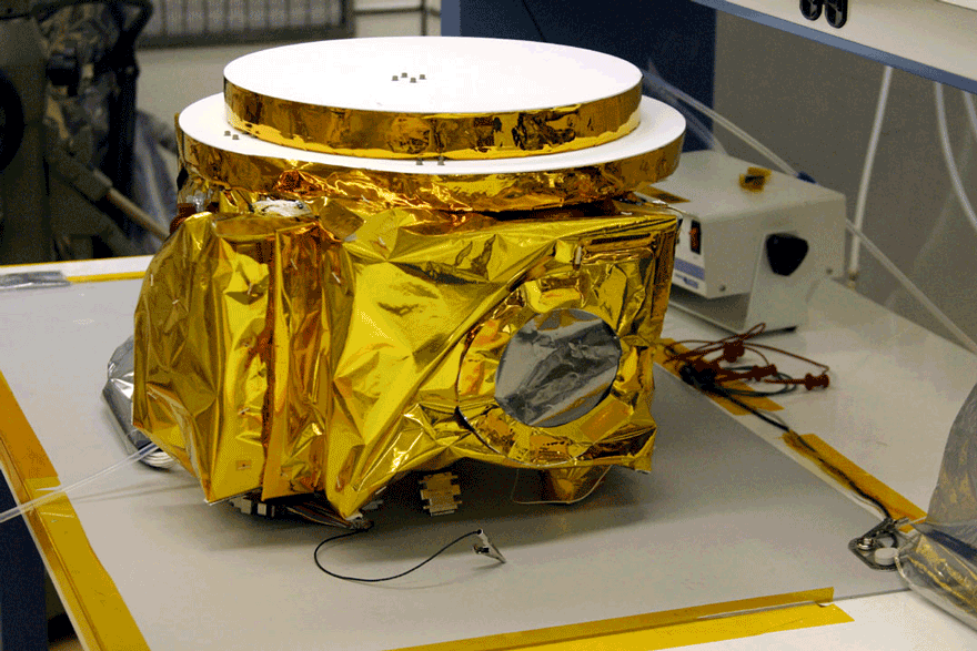 Ralph is a instrument abord NASA's New Horizons space probe.